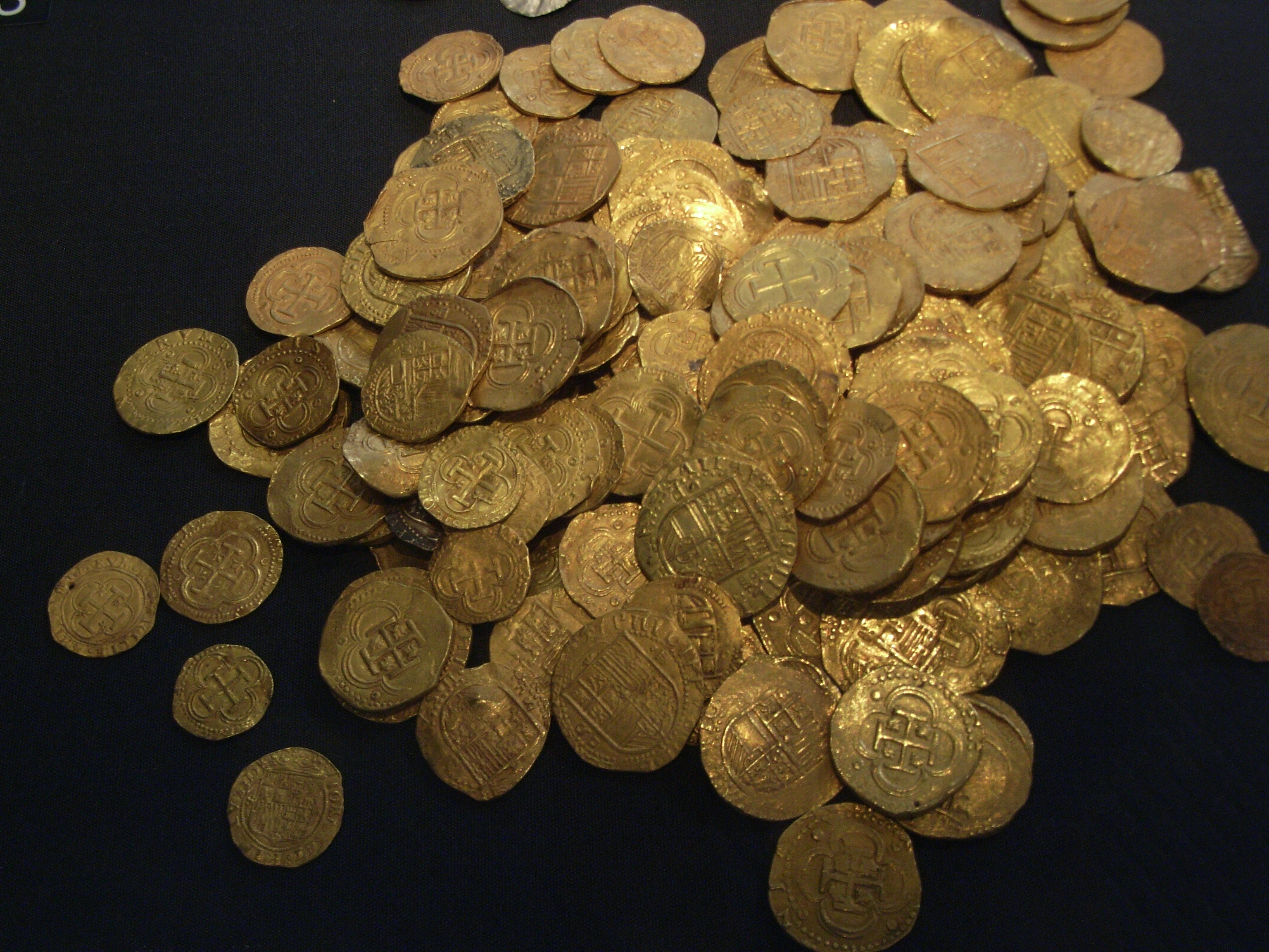 Gold coins from the Girona, Ulster Museum, Belfast, Northern Ireland